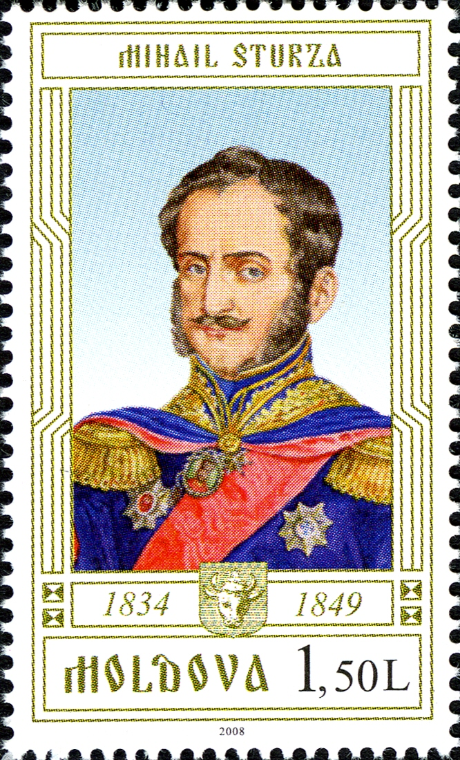 Stamp of Moldova